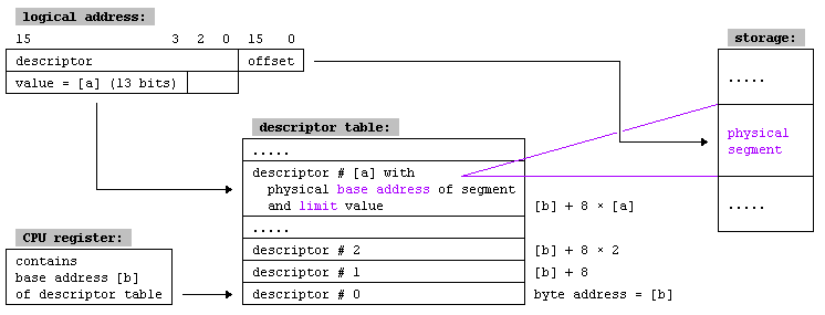 virtual addressing of segments ( intel 80286 )